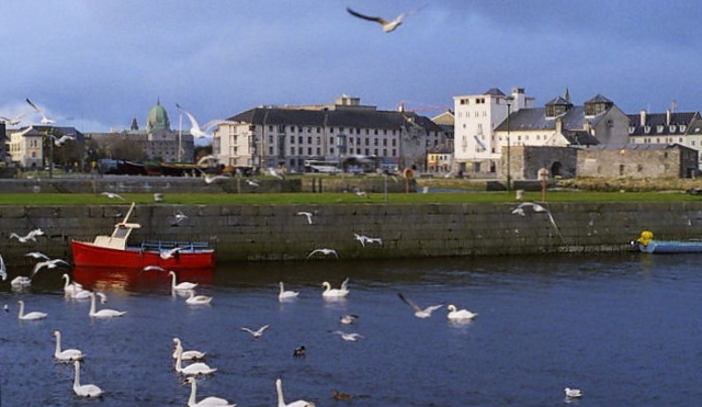 Galway: Port with Cathedral and Spanish Arch.